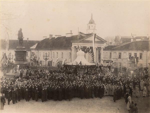 Revelation of the monument to count Muravyov in Vilna